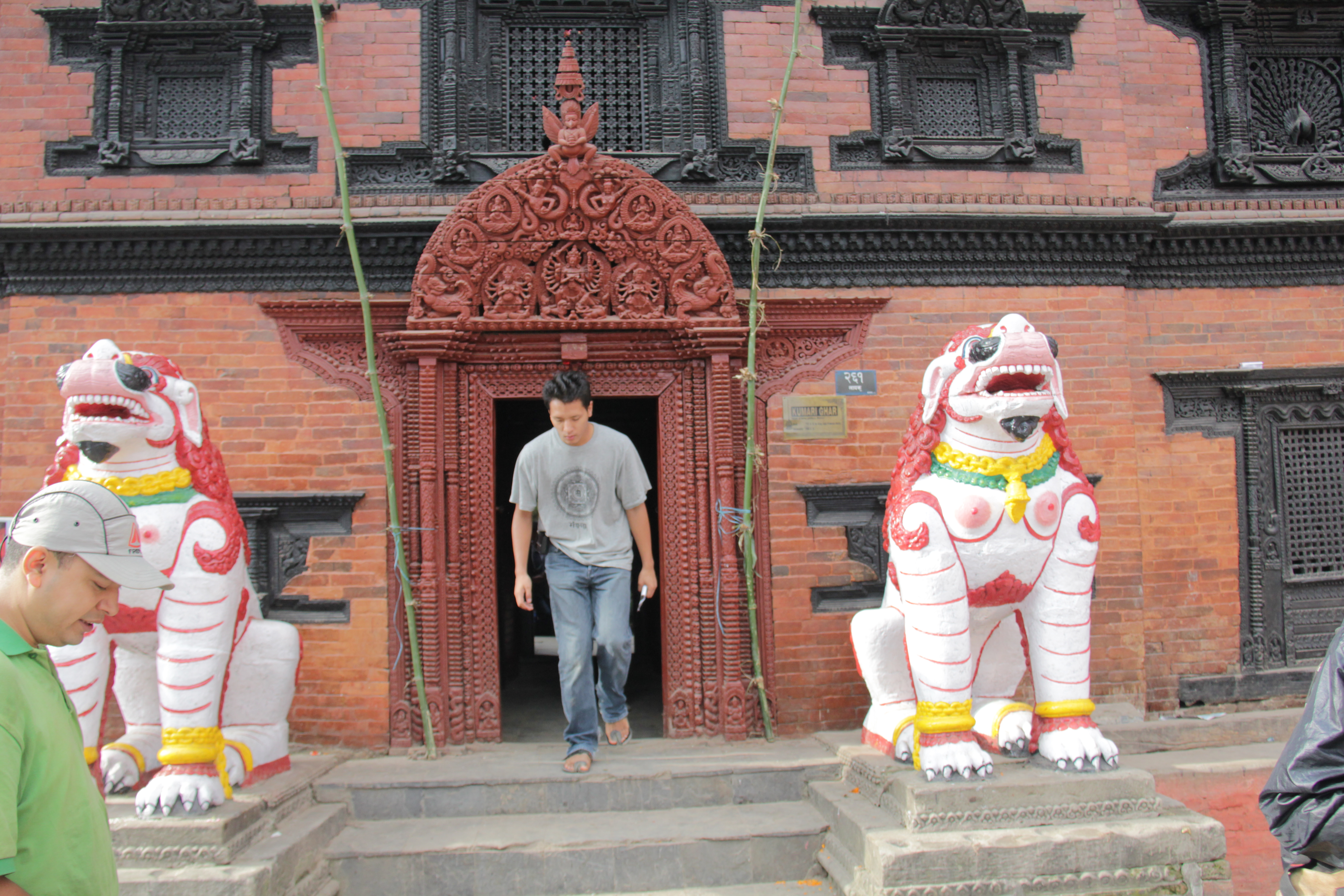 Kumari Ghar